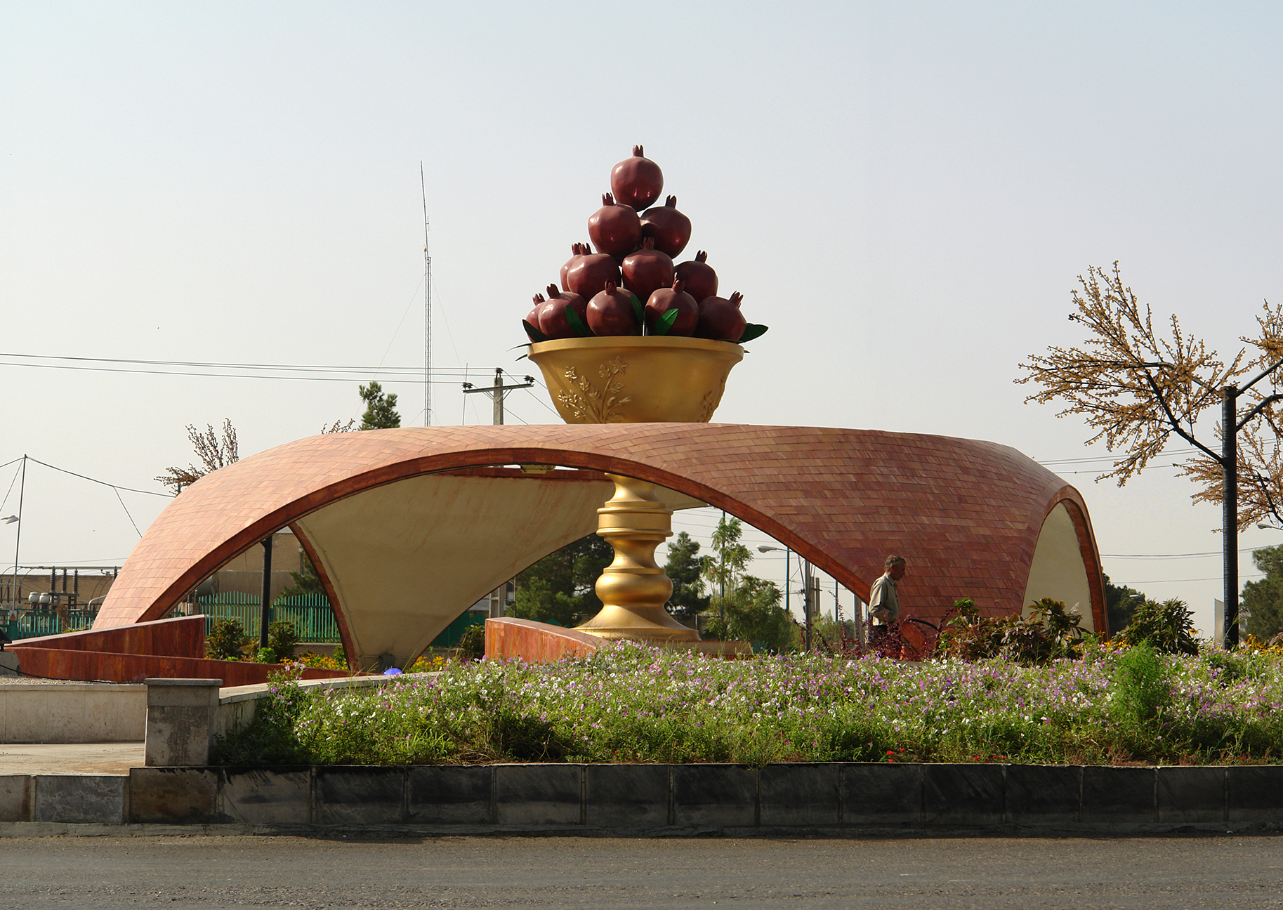 Shahrdari square in Saveh. Pomegranate is symbol of the city in Iran.